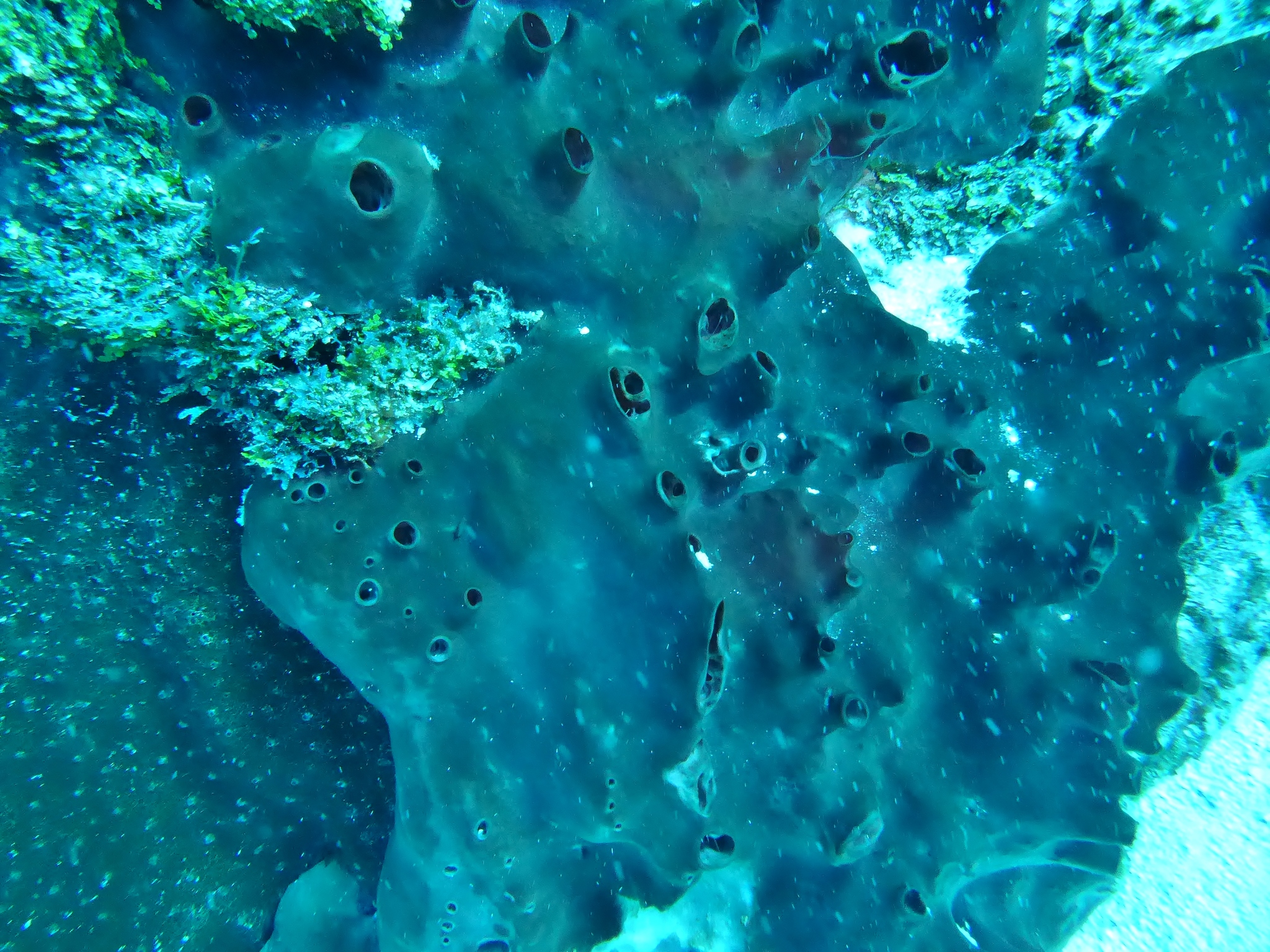 Svenzea zeai. Species of marine invertebrate.